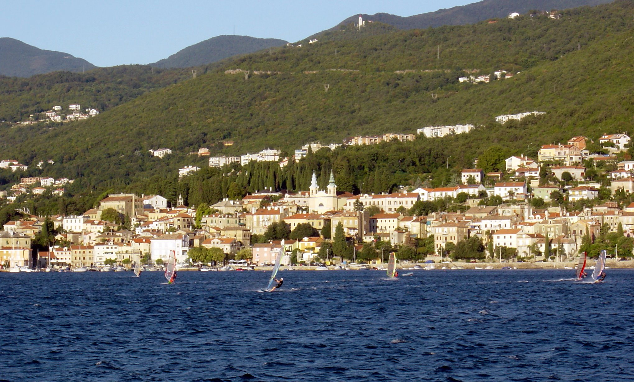 Panorama of Volosko, Croatia. Photo is taken from the east side of the Bay of Preluk, 8/23/2004 at 7:30 AM.